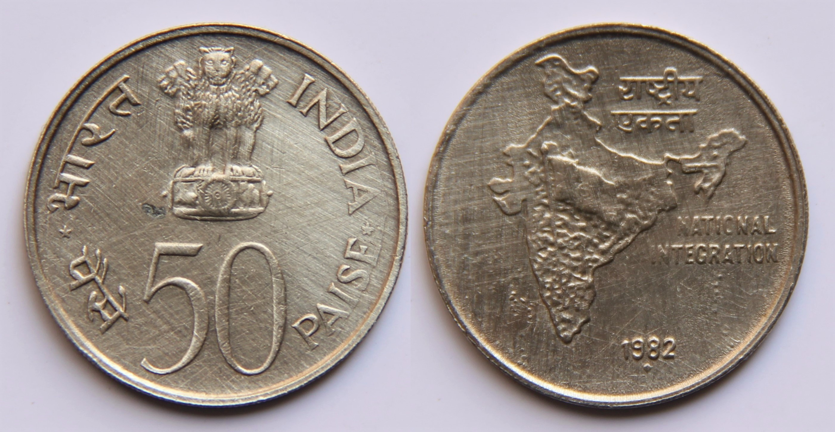 Face value: 50 Paise. From collection of Arun Kumar Singh Country: India. Year of minting: 1982. Metal: Copper-nickel. Shape: Round. Obverse: State Emblem of India, country name and face value in Hindi and English. Reverse: Flag of India on top of Indian Map with lettering "National Integration" in Hindi and English. Edge: Security. Weight: 5 g. Diameter: 24 mm. Thickness: 1.65 mm. Orientation: Medal alignment ↑↑. Total mintage: 9,804,000 (1982). Engraver: Not known. Comment: This coin was Commemorative issue to celebrate "National Integration". Coins minted in Kolkata & Mumbai mint. This particular coin was minted in Mumbai (dot below year indicates it was minted in Mumbai) Monetization status: In circulation. Data source: This webpage.